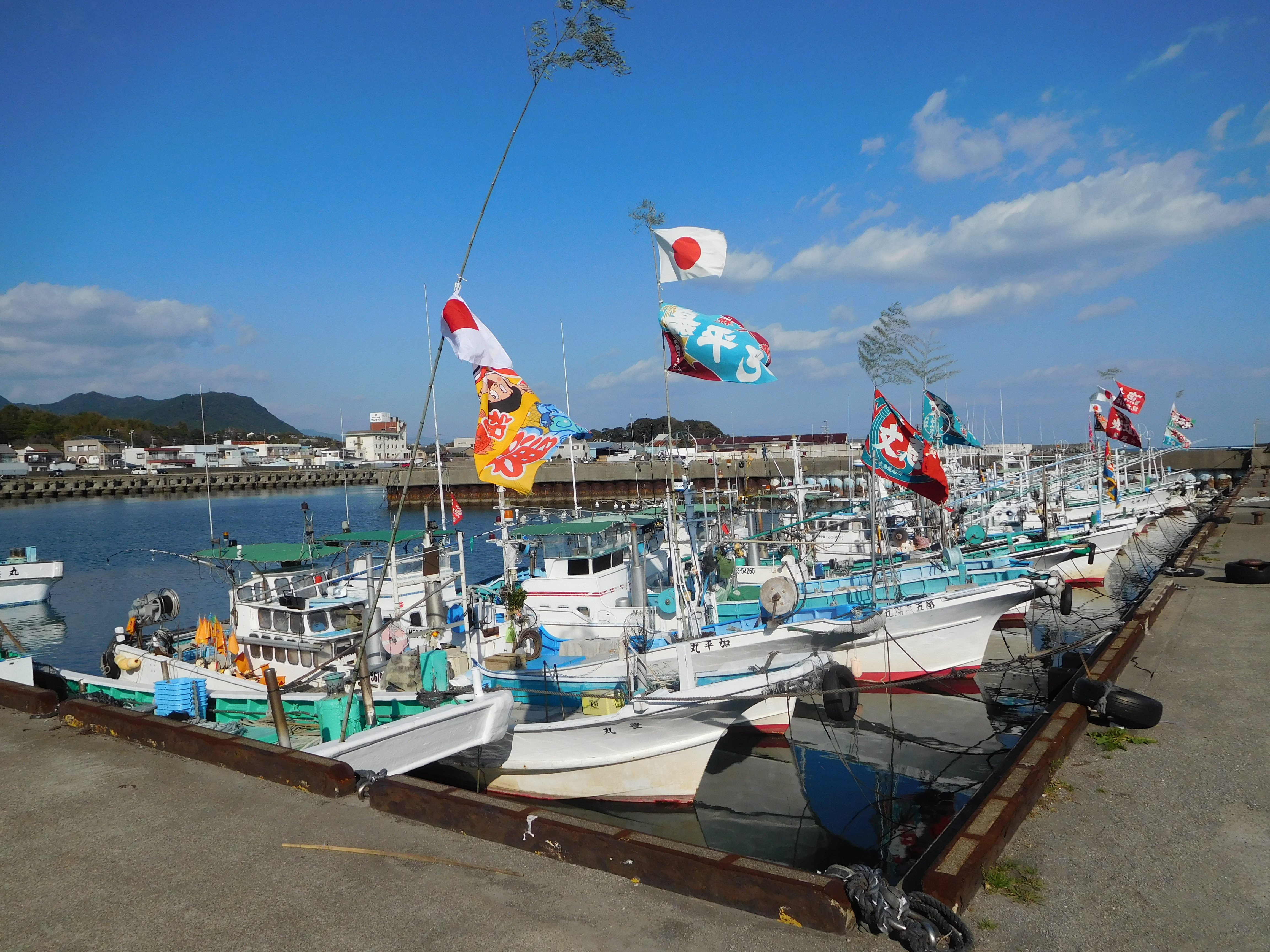 These are fishing boats in Udono port, which is located in Udono, Kiho, Mie, Japan.